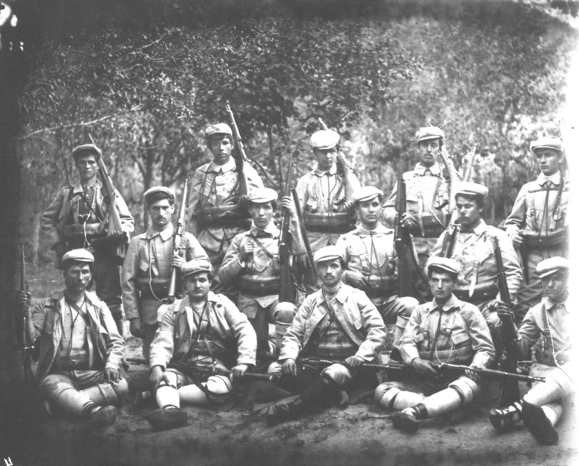 Cheta of IMARO bulgarian revolutionaries Atanas Dachev and Vasil Pachedzhiev